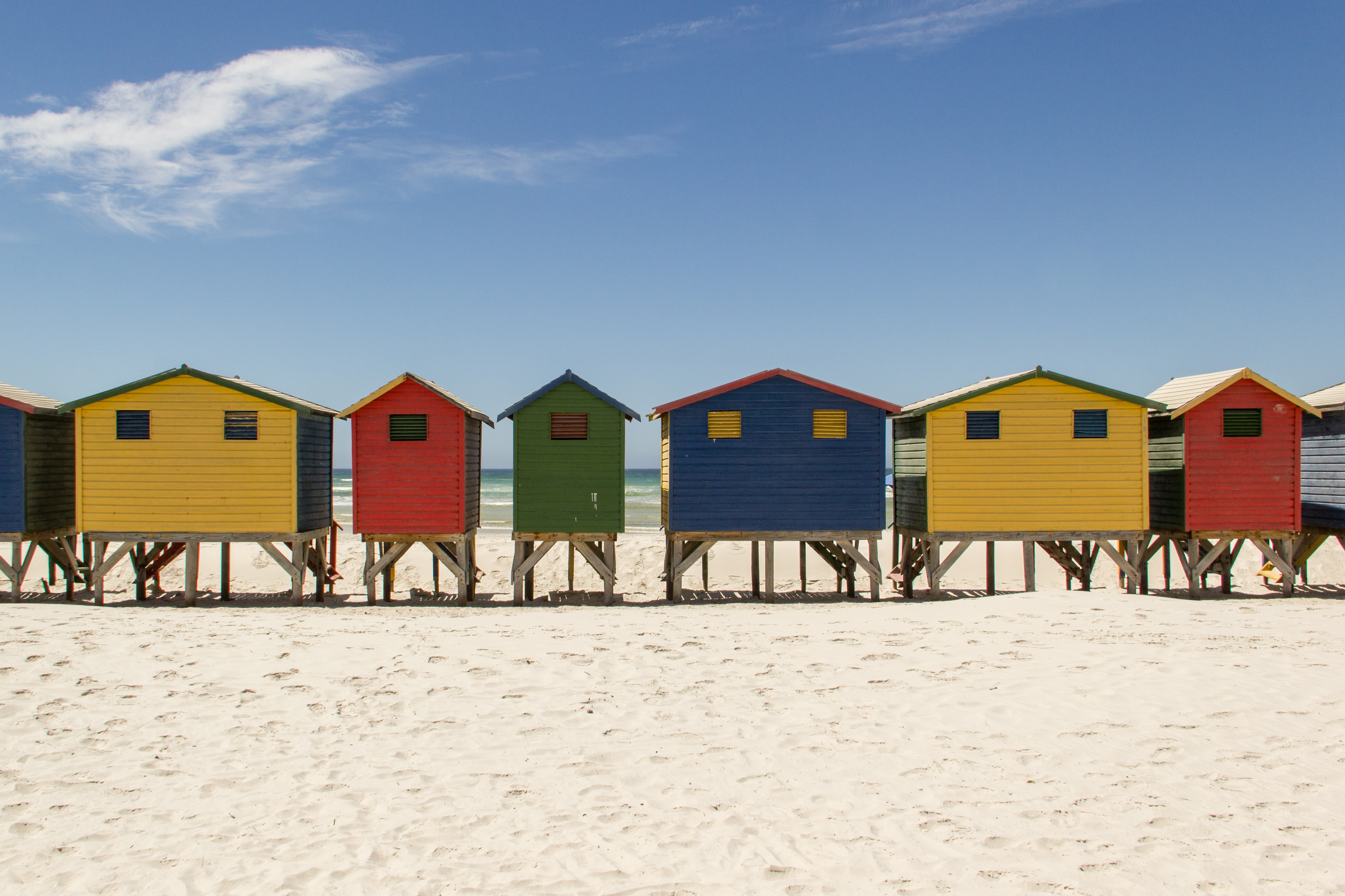 Colourful beach houses at False Bay, Muizenberg, Cape Town, South Africa.